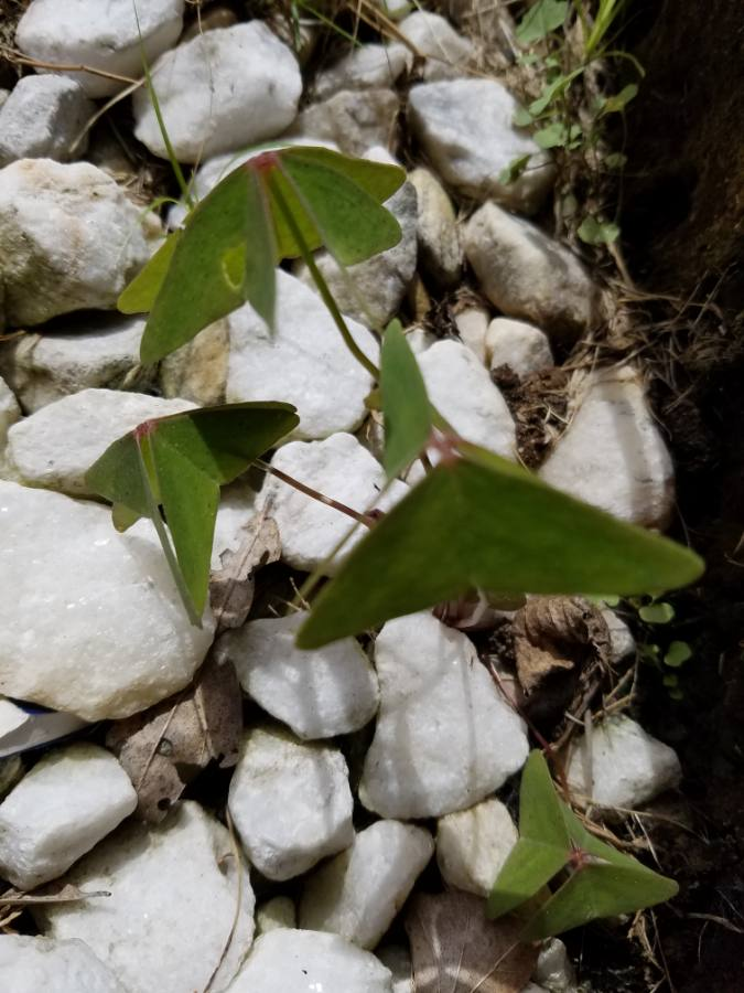 Oxalis latifolia in Louisiana